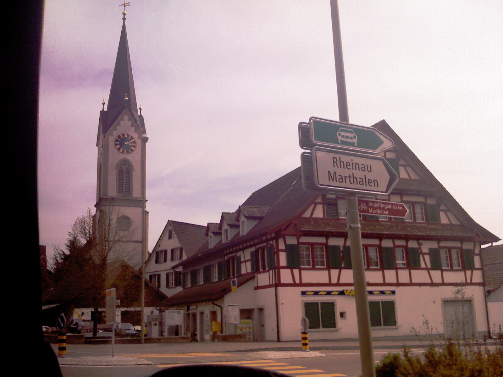 Church of Benken, Canton Zürich, SwitzerlandEsperanto: Preĝejo de Benken, Kantono Zuriko, Svislando